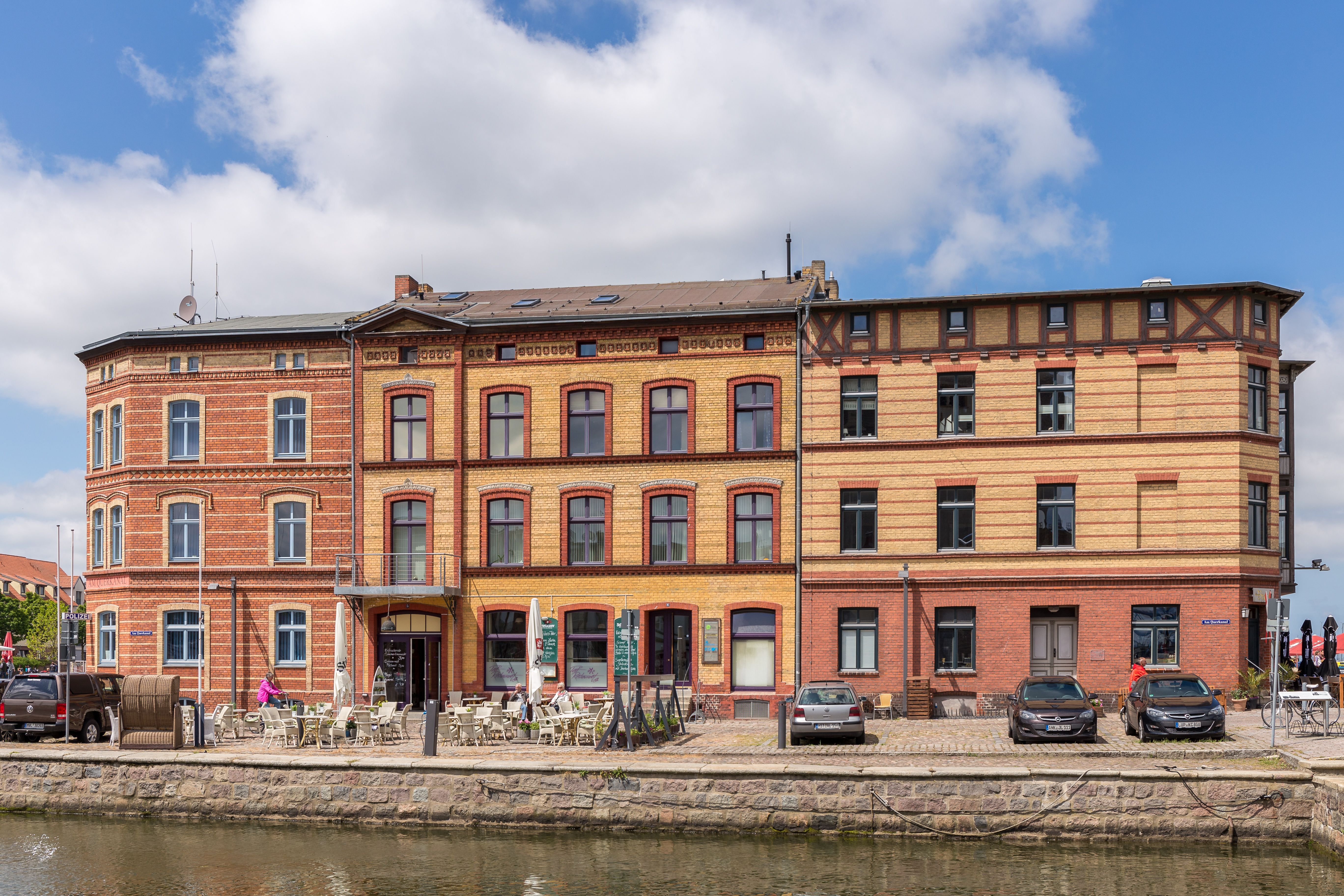 Building Am Querkanal 5, Stralsund.